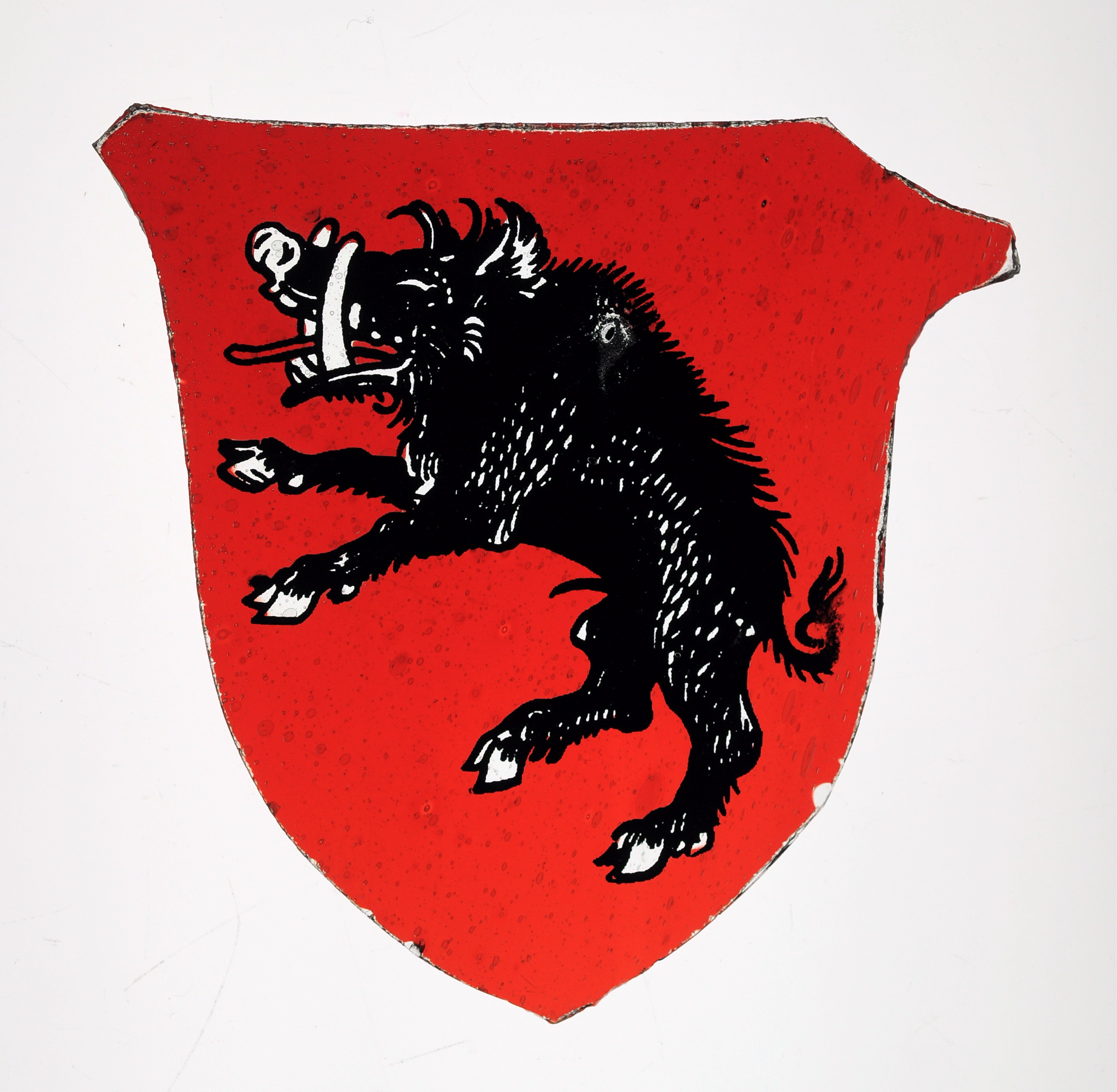 Shield made of red glass with a wild boar, worked out with hydrofluoric acid and painted with black colour